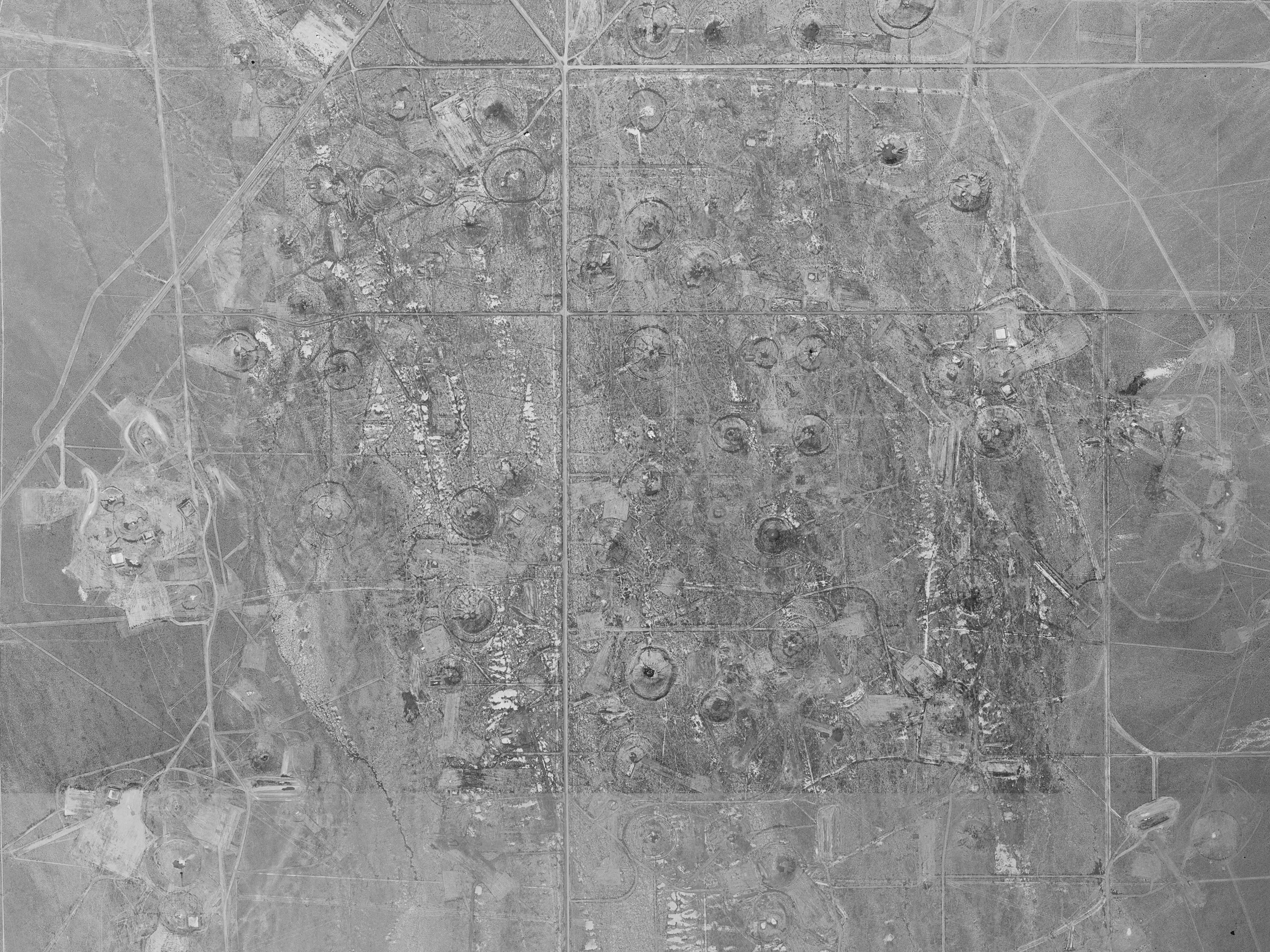 Subsidence craters in the southern section of the Nevada Test Site. USGS data. 1 meter/pixel.